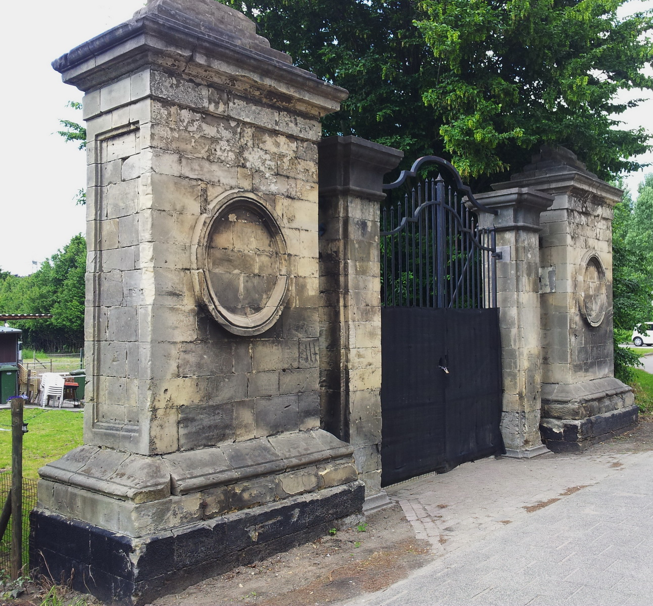 Maastricht, the Netherlands. Detail of a gate at the country estate of Mariënwaard in the northeastern suburb of Nazareth.